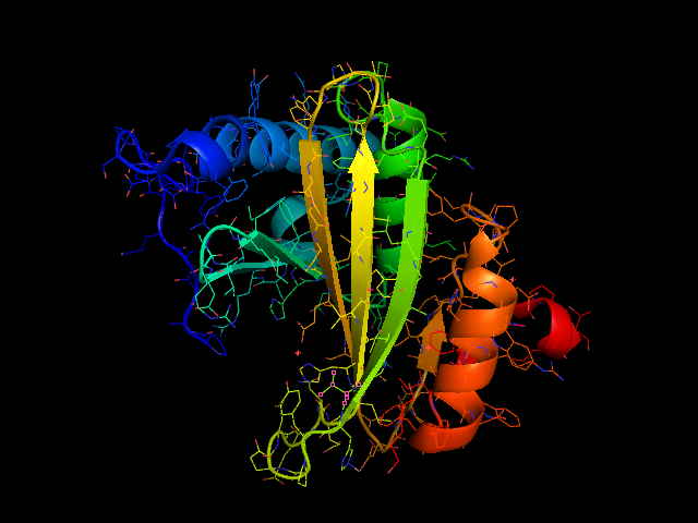 PyMol image of NADH dehydrogenase molecular structure